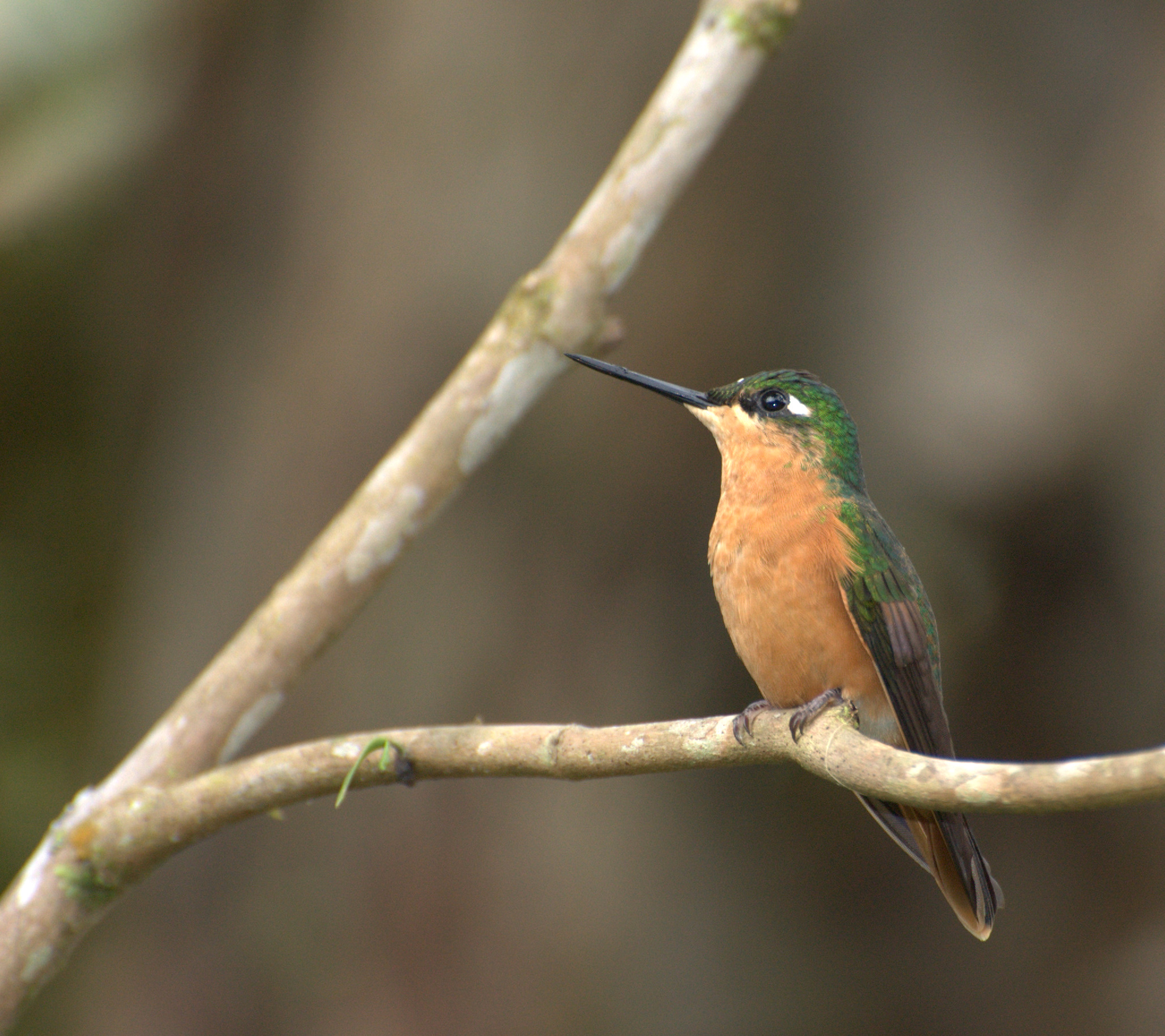 A Brazilian Ruby (Clytolaema rubricauda) female